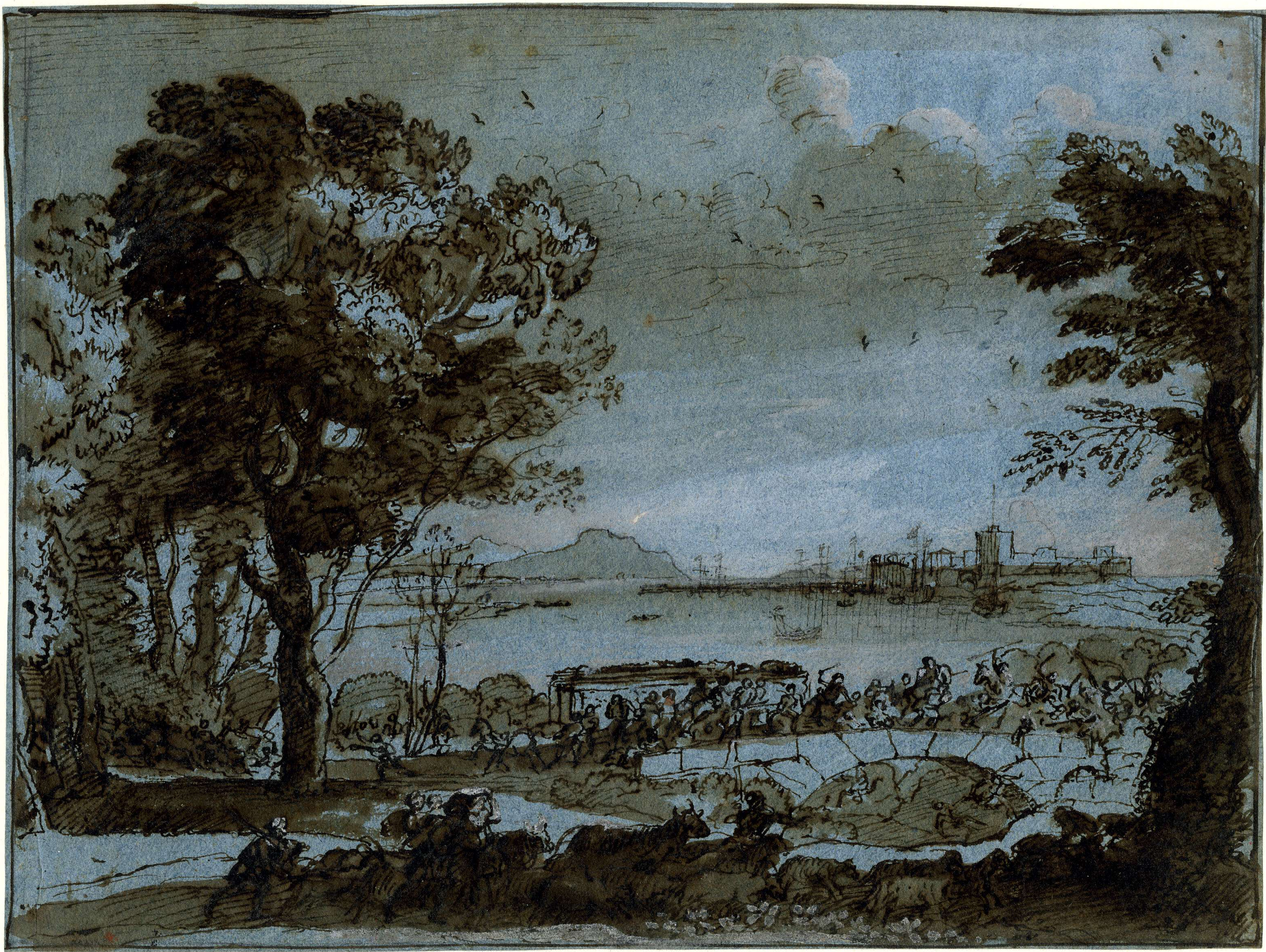 Coast scene with a battle on a bridge, record of paintings in Moscow and Richmond (Virginia) from the Liber Veritatis; in foreground figures and animals moving towards r, beyond bridge and battle, in background stretch of water